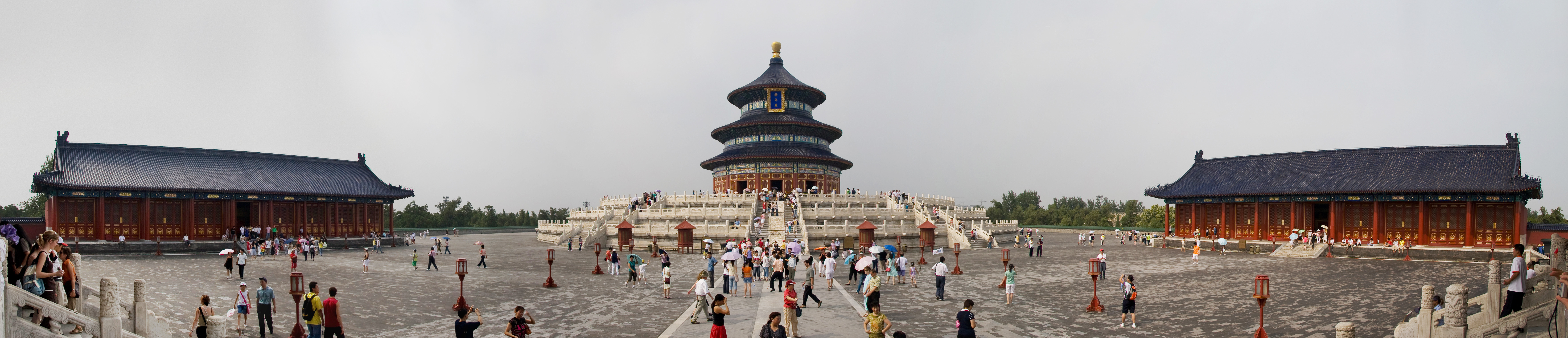 Temple of Heaven, Beijing, China, edit by Thegreenj